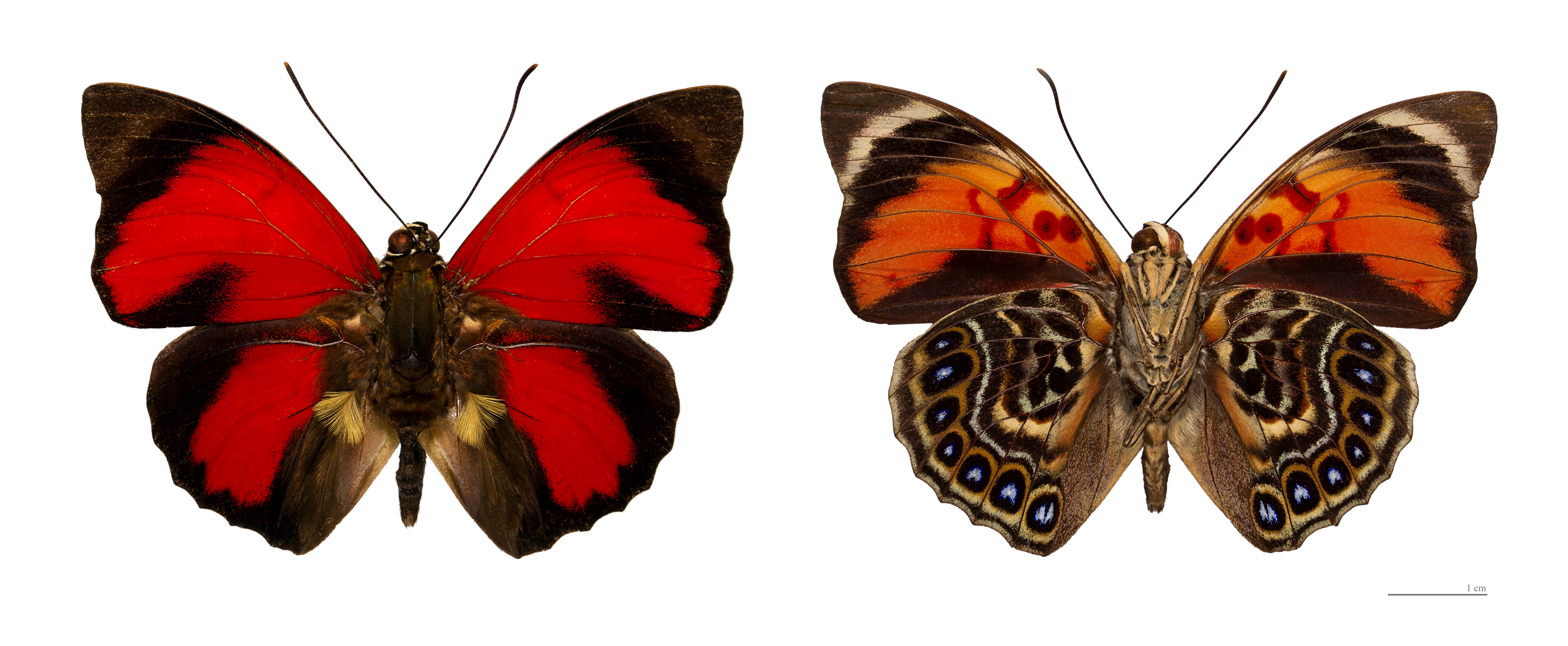 ♂ - Two views of same specimen Locality : Cacao, Crique Baguot, French Guiana.